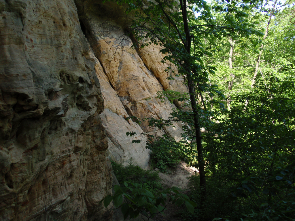 Deer Cove Rockshelter, Governor Dodge State Park, Wisconsin